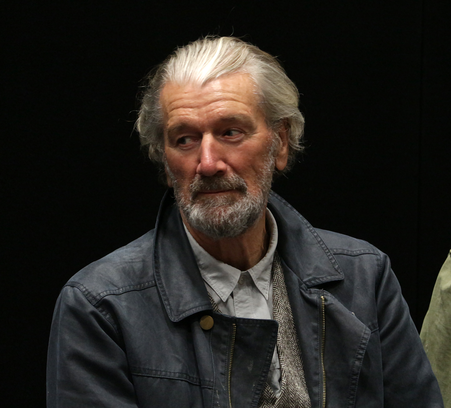 Clive Russell on stage @ 2018's Glasgow Film & Comic Con